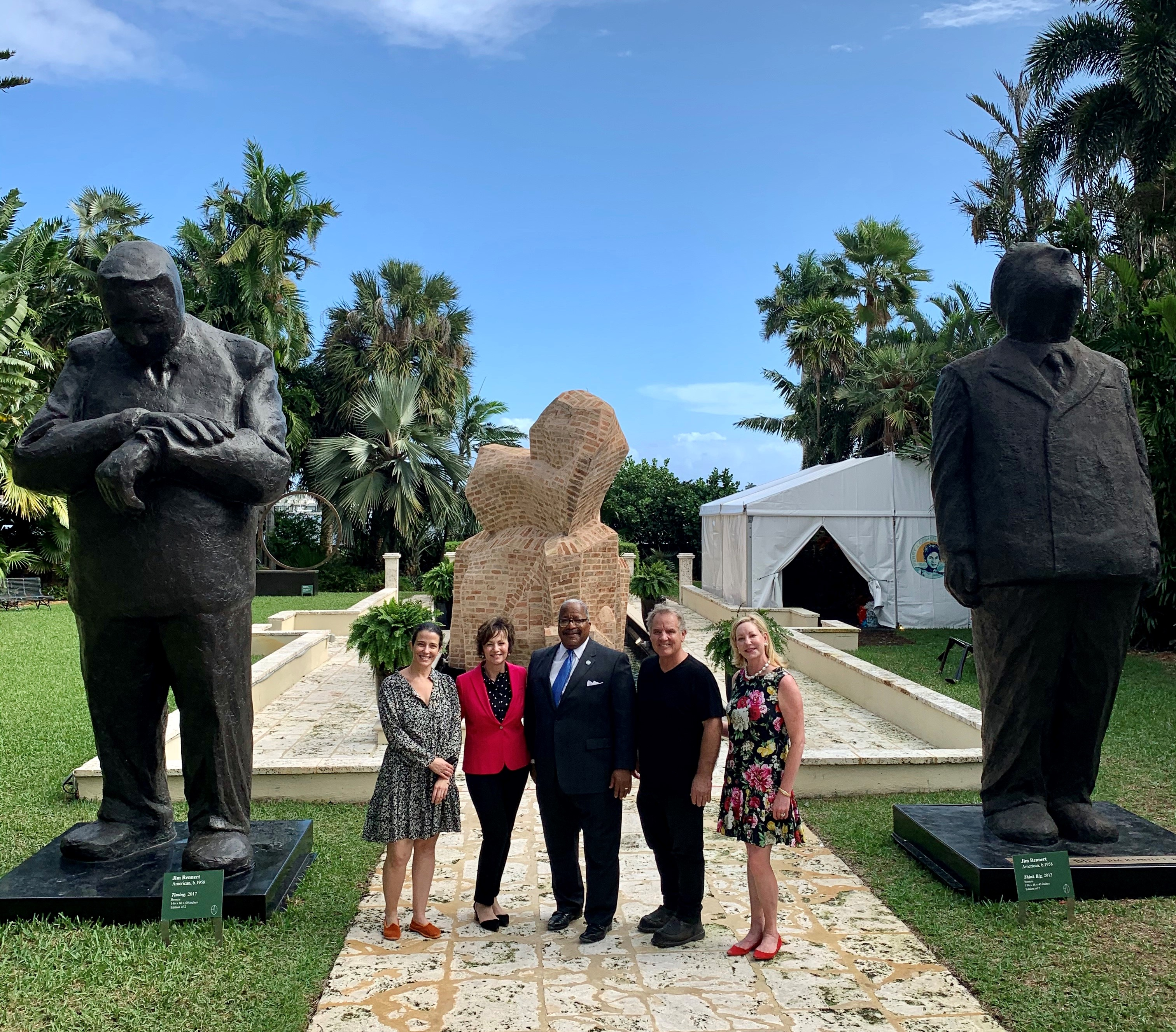 Jim Rennert with West Palm Beach Mayor, Keith James, and several members of the organising group. Two of Rennert's works are shown.